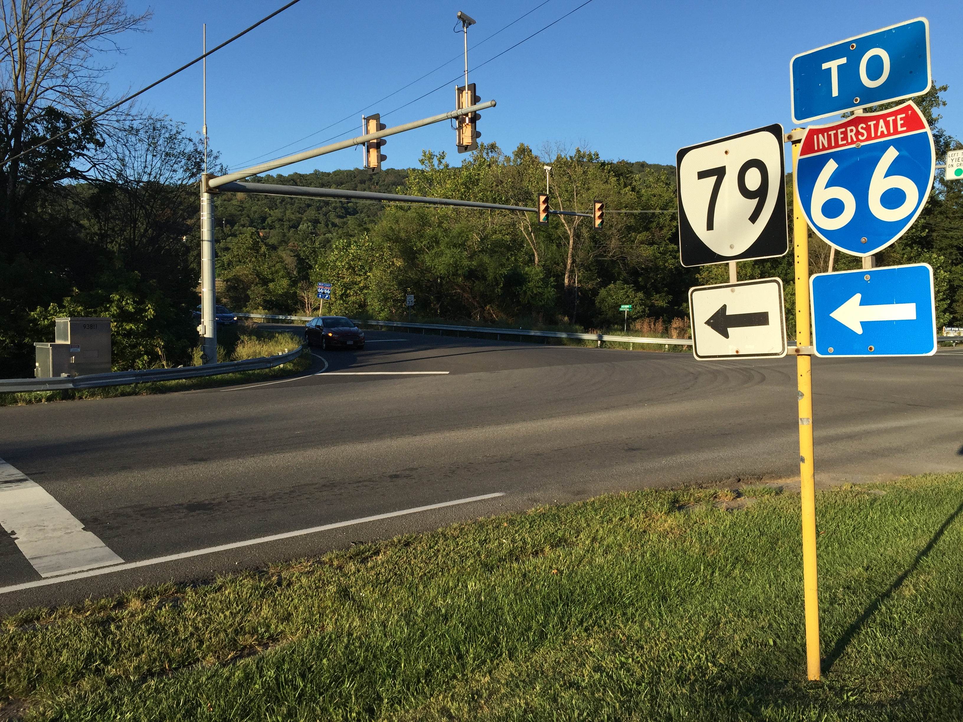 View north along Virginia State Route 79 (Apple Mountain Road) at Virginia State Route 55 (John Marshall Highway) in Linden, Warren County, Virginia